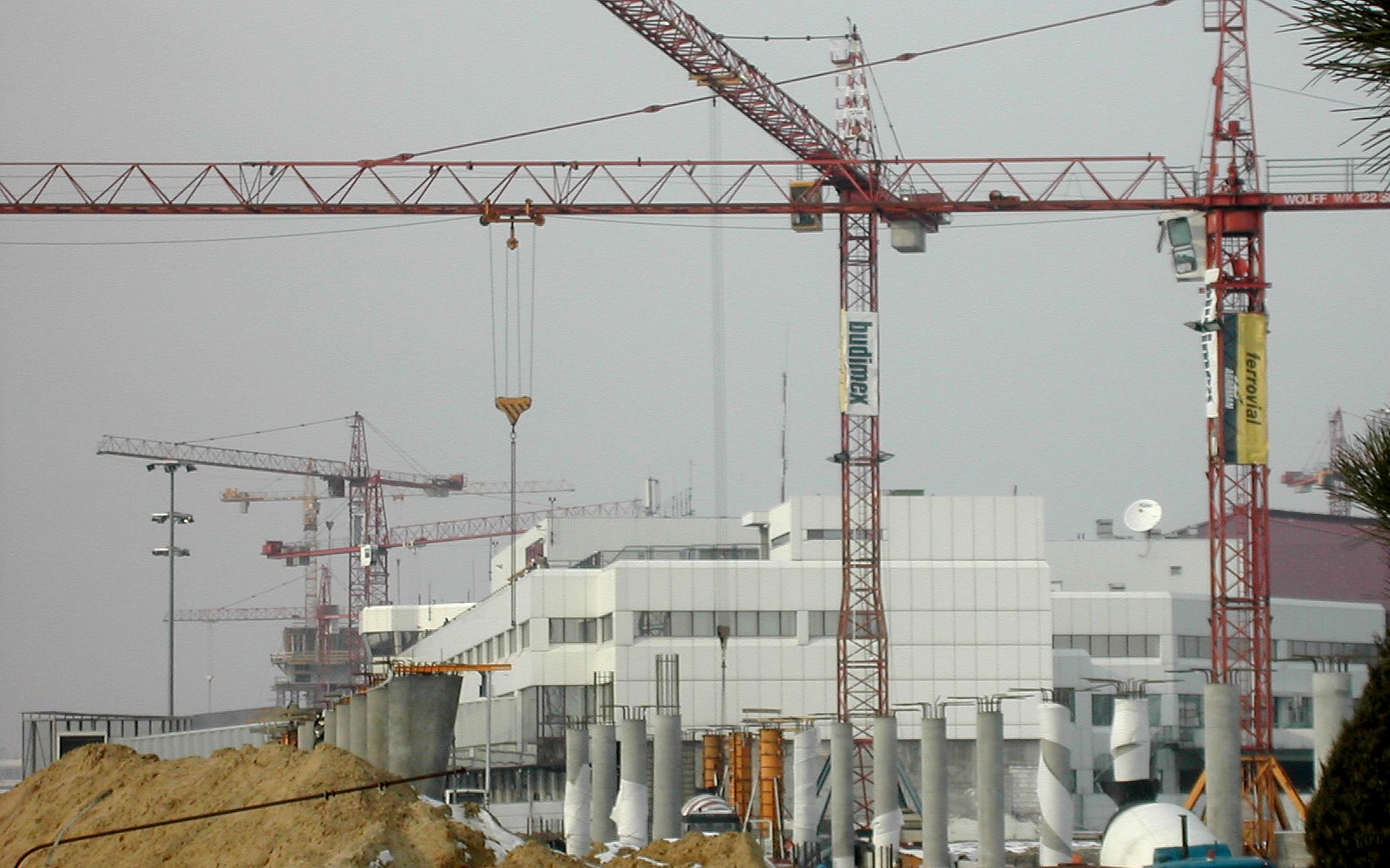 Okęcie Airport in Warsaw (WAW), construction of South Piers of Terminal 2